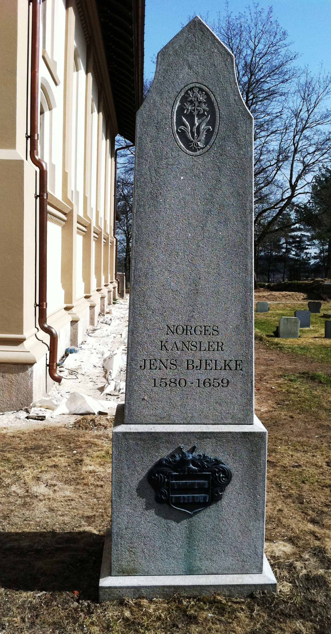 Jens Bjelke memorial monument, at Onsøy church, Fredrikstad, Østfold